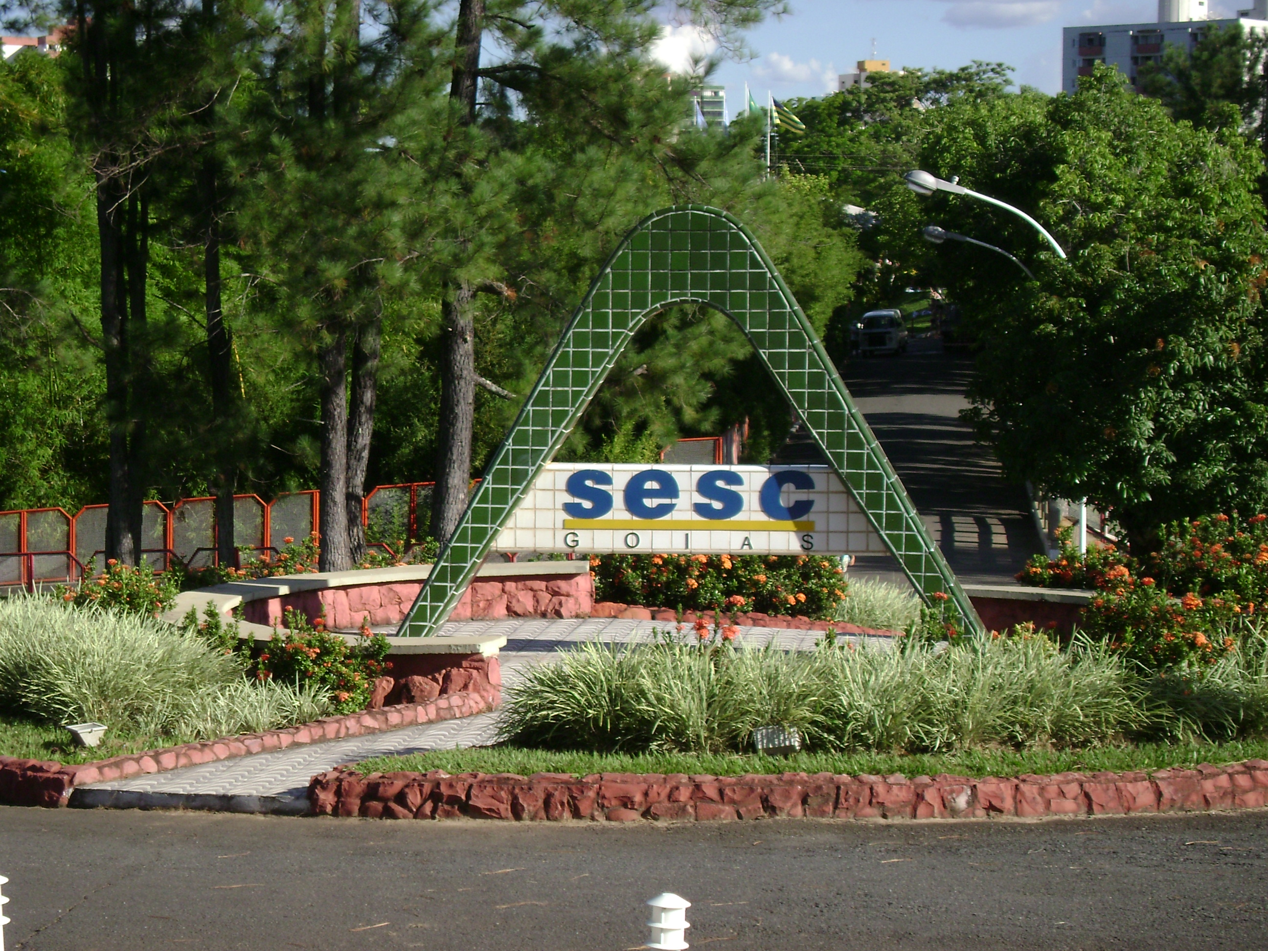 Square inside SESC Caldas Novas, in Goiás, Brazil.